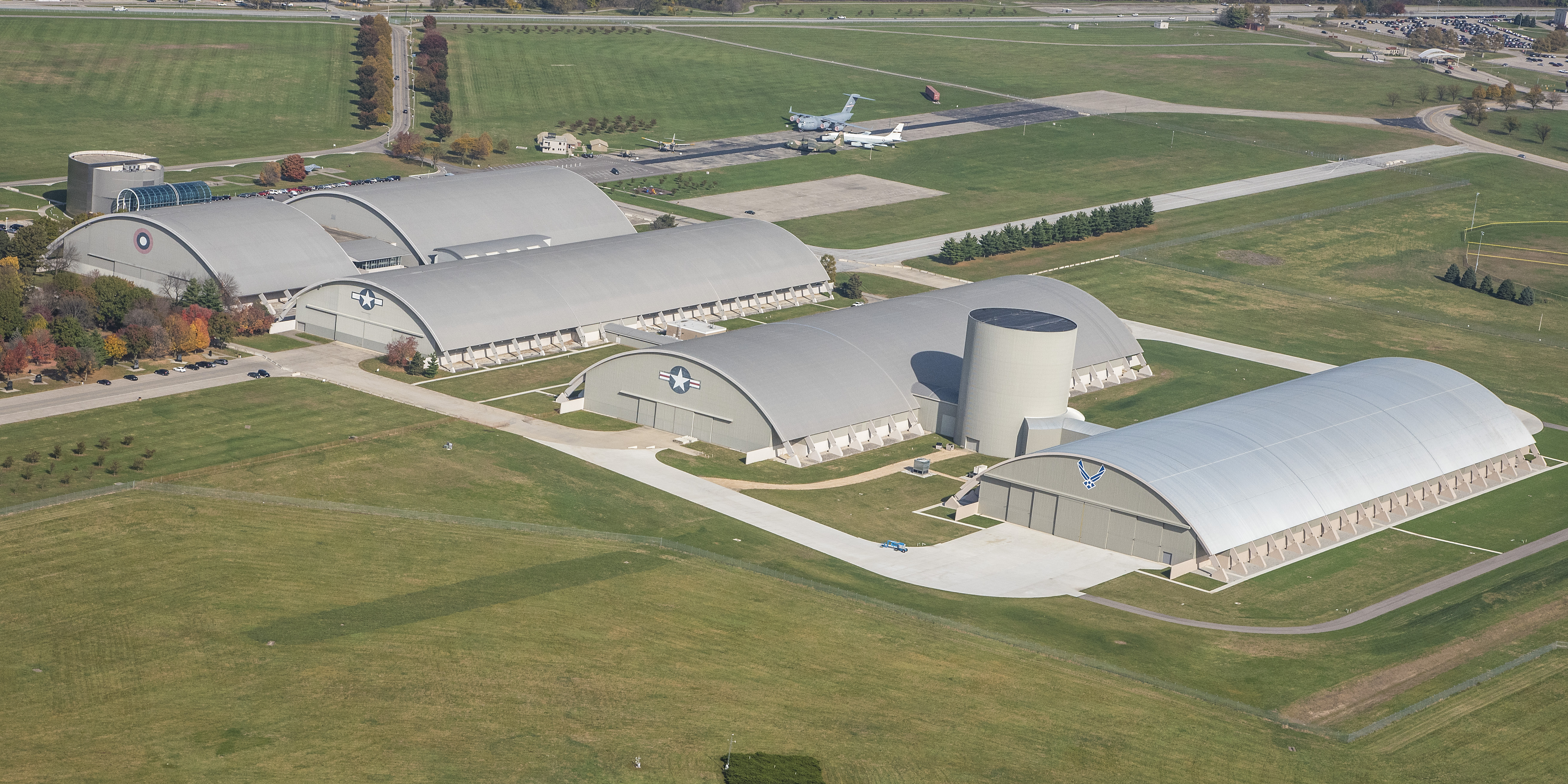 Aerial view of the museum taken in Nov. 2016 by museum photographer Ken LaRock. Image is in Public Domain.